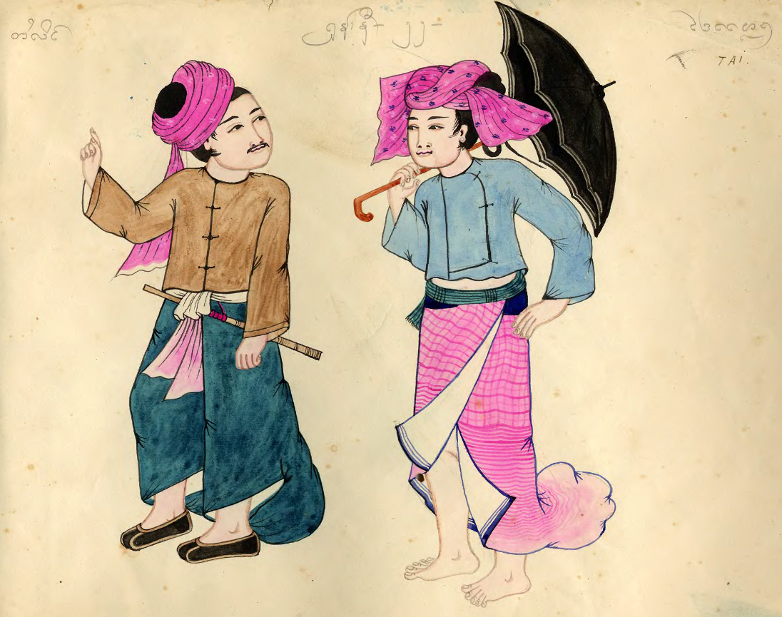 from a Burmese handpainted color manuscript